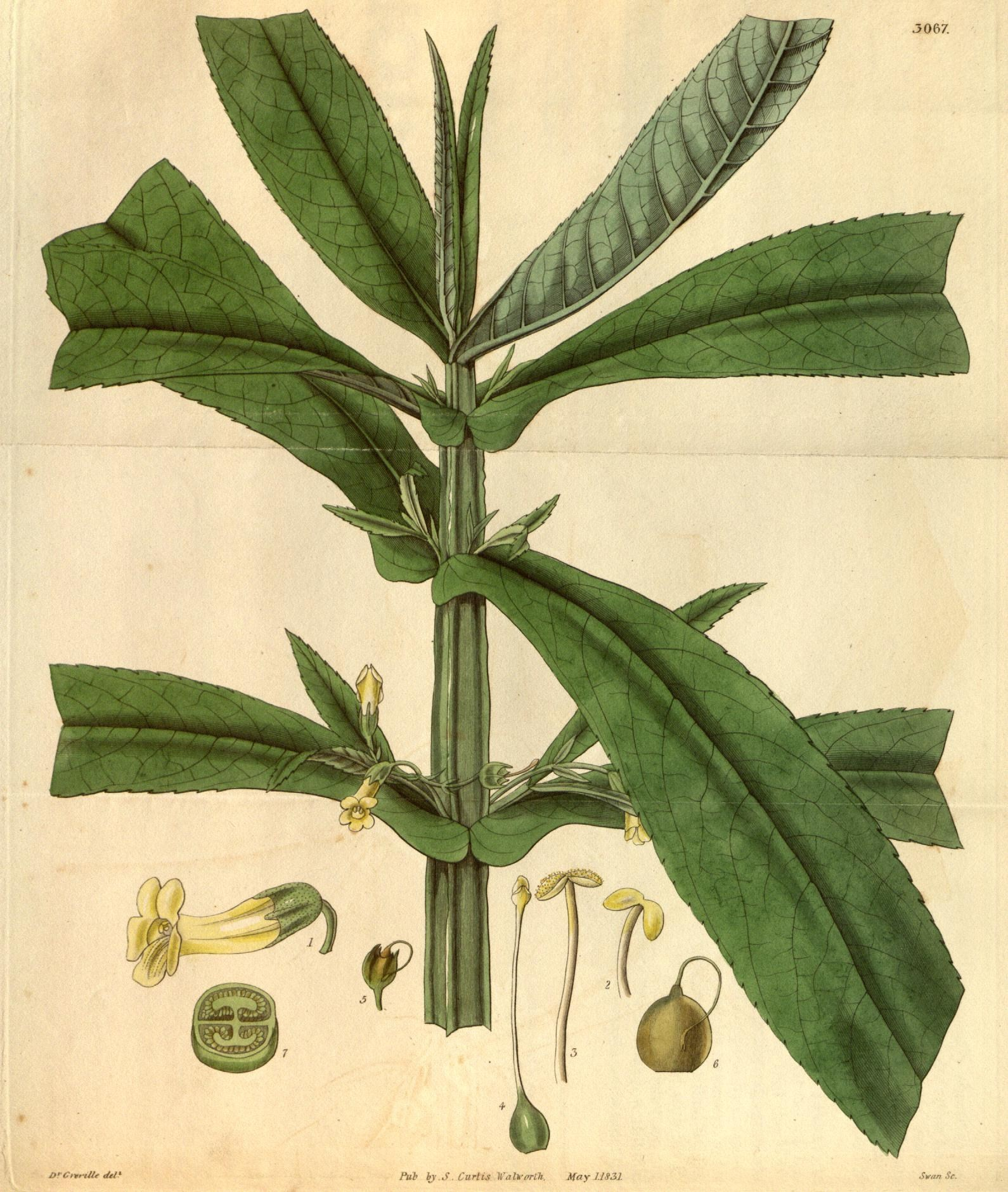 llt .ttl' Puh by S Curtis Vatk'/n-Ck, May UfSi